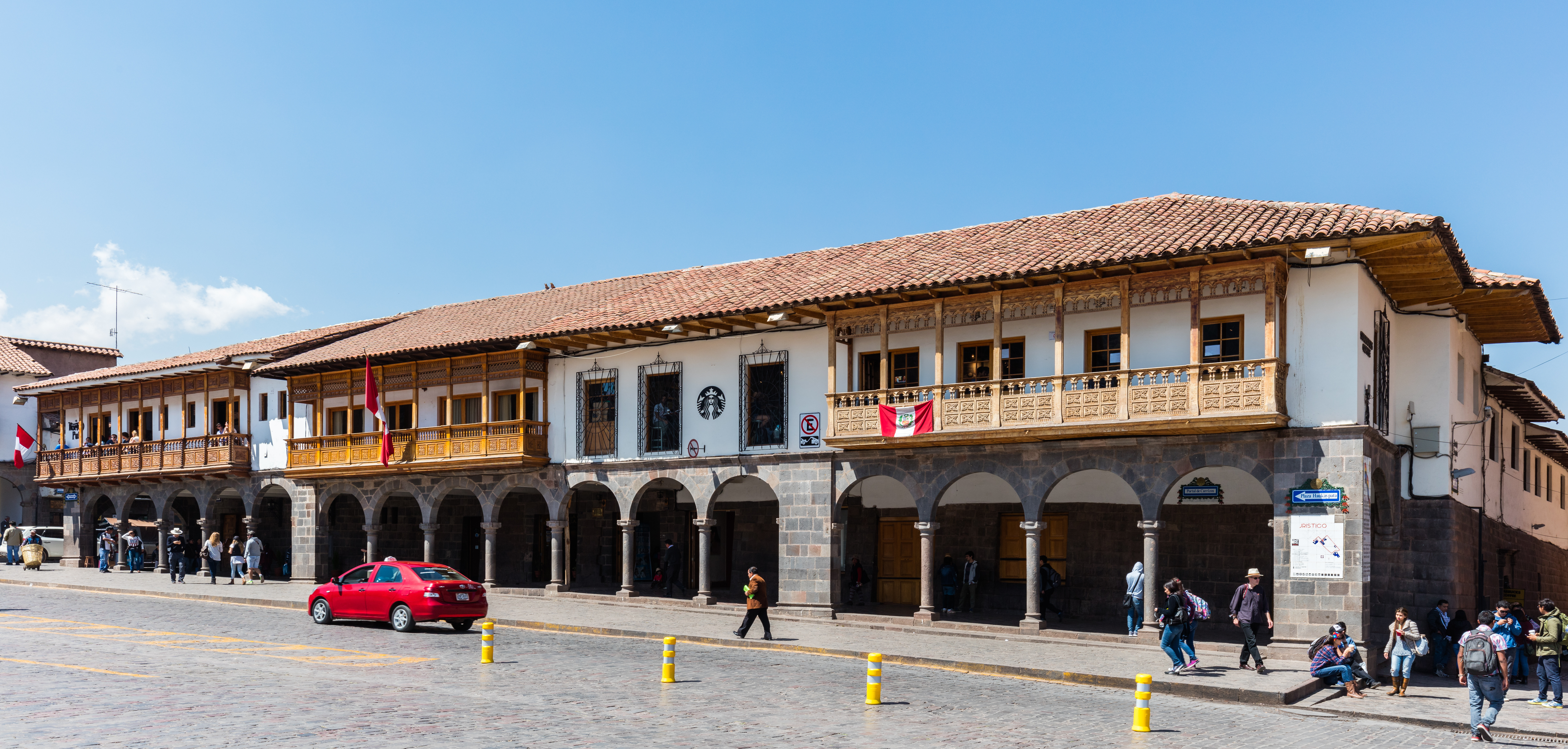 Plaza de Armas, Cusco, Peru